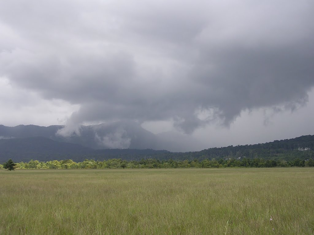 Wet season storm clouds over Iralalaro floodplain and Paitchau Range, Malahara, Lautem, Timor-Leste